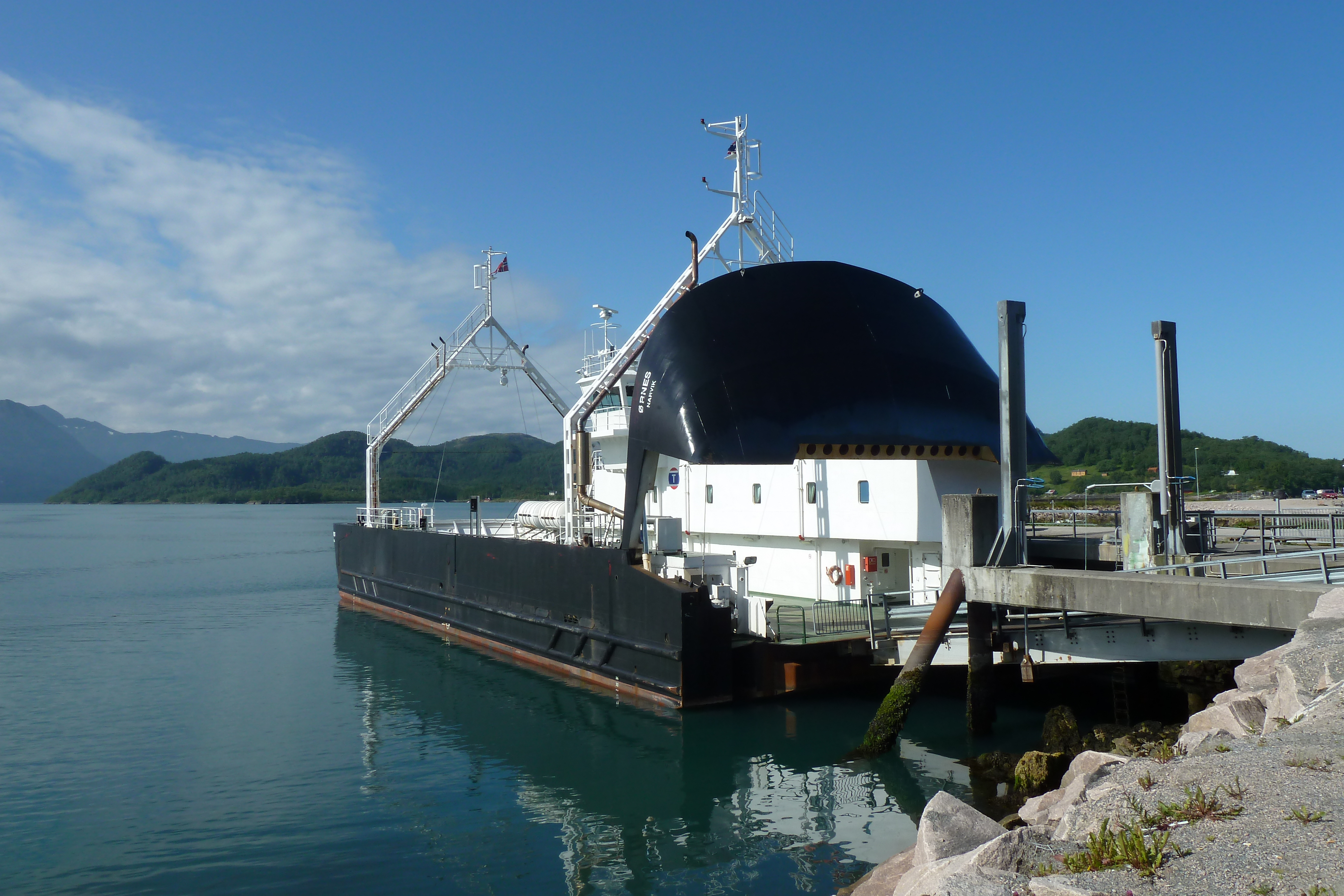 Car ferry Ørnes in dock in Ørnes, Meløy